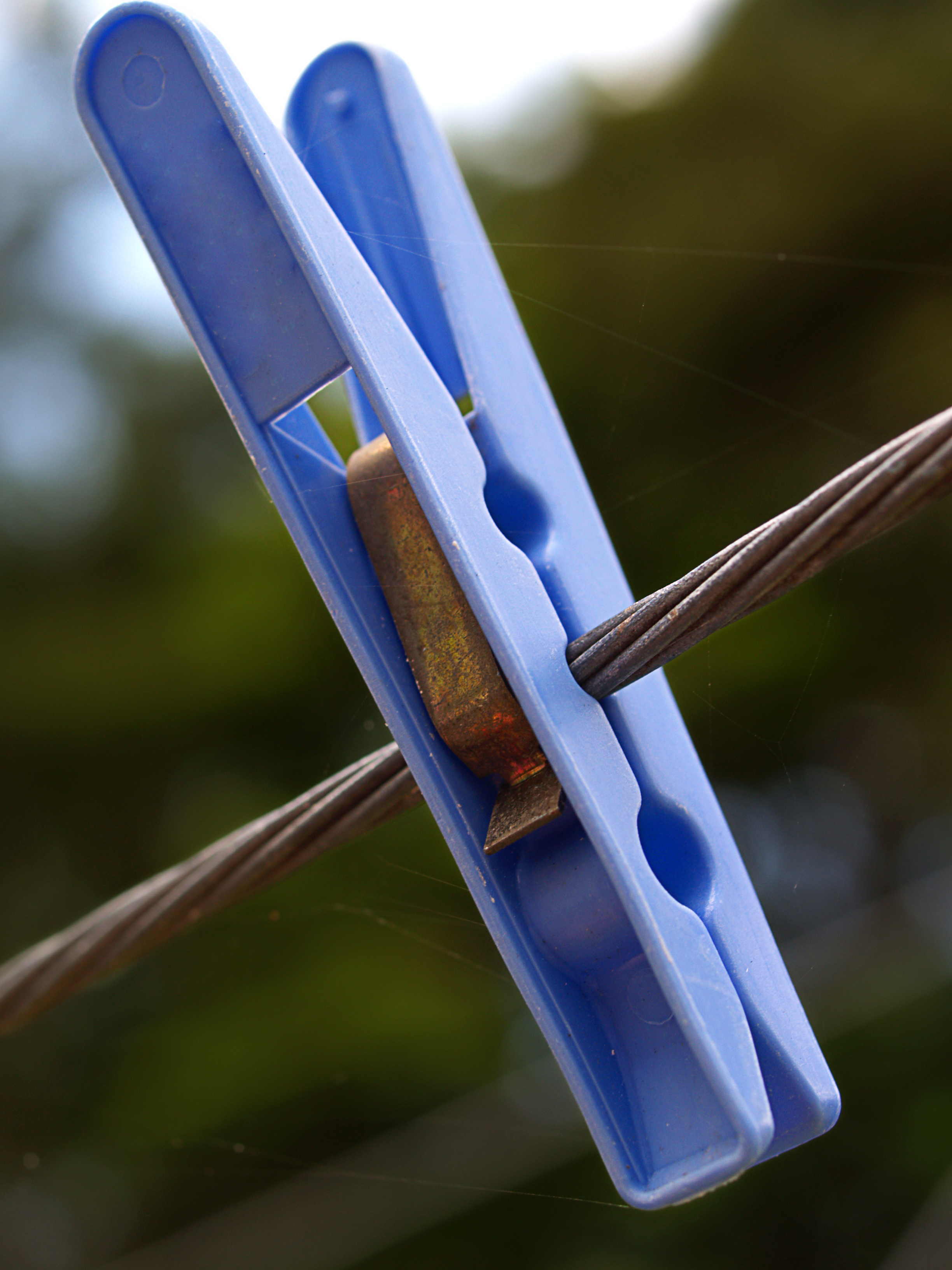 More playing around with macros